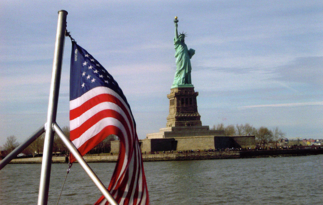 A photo of the Statue of Liberty behind an American Flag. Taken from a tour boat in New York Harbor. Uploaded by DannyQuack